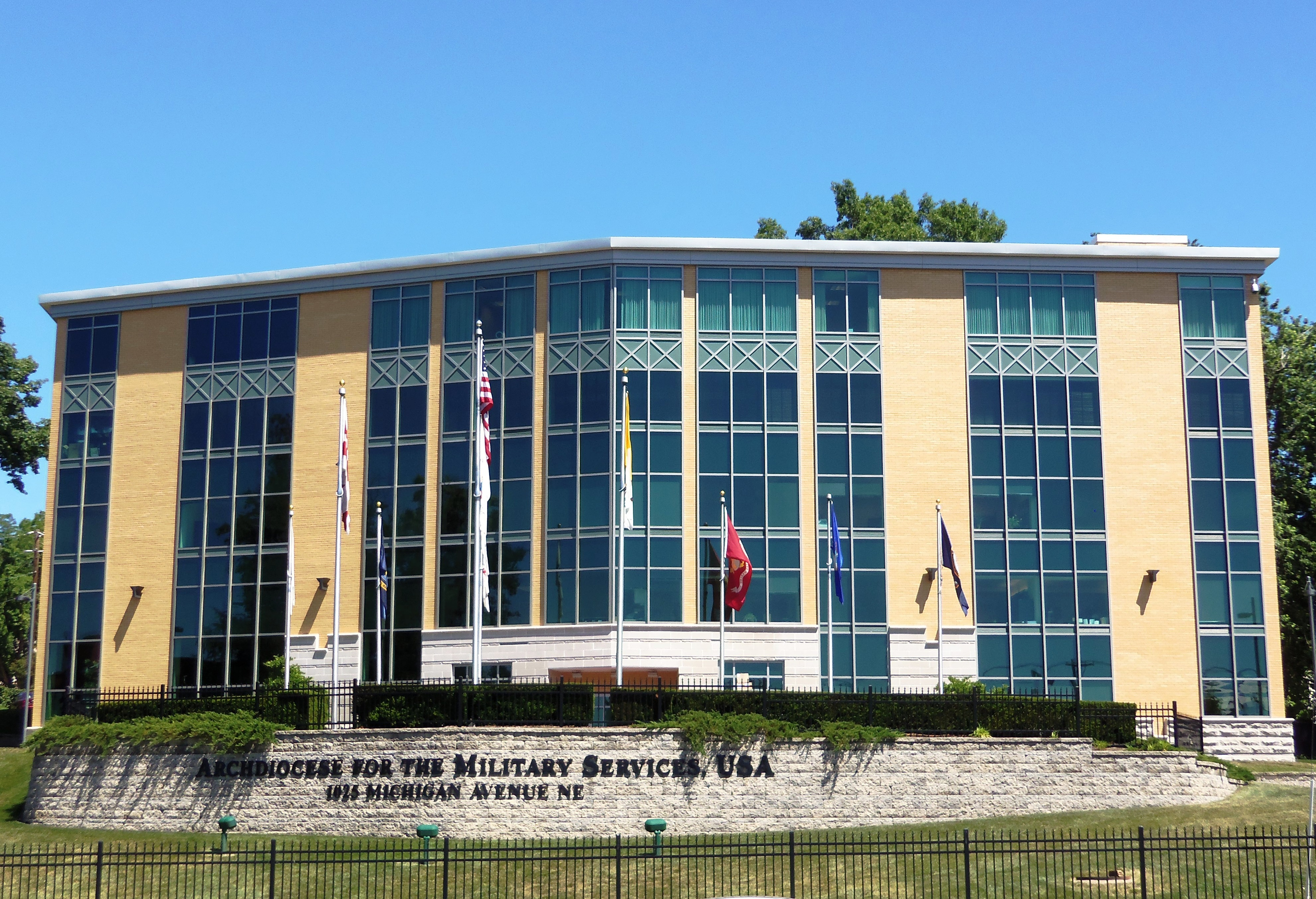 The offices of the Roman Catholic Archdiocese for the Military Services, USA on Michigan Avenue, NE, in Washington, DC.